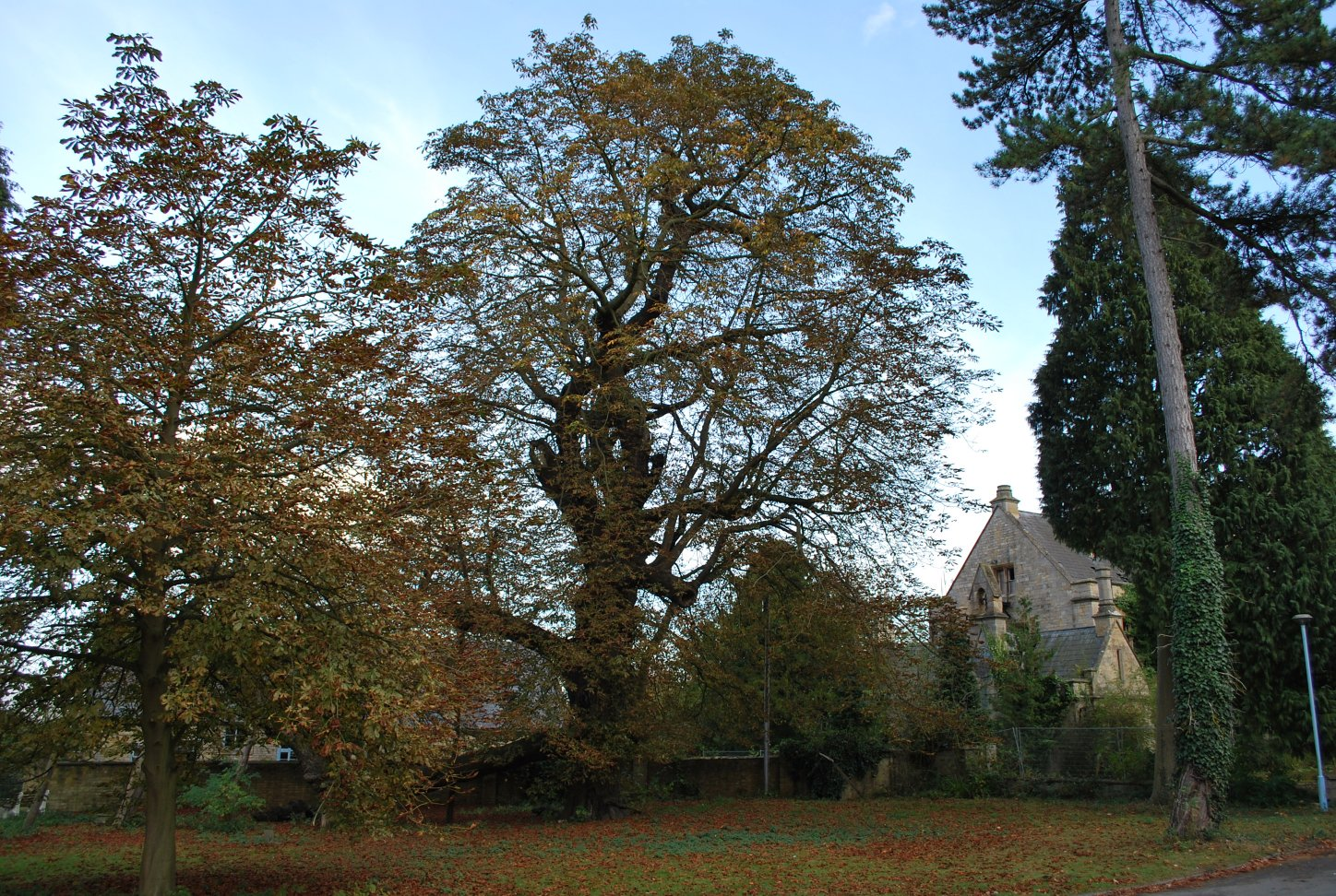 Chestnut tree behind Nocton Hall, one of the oldest in England.